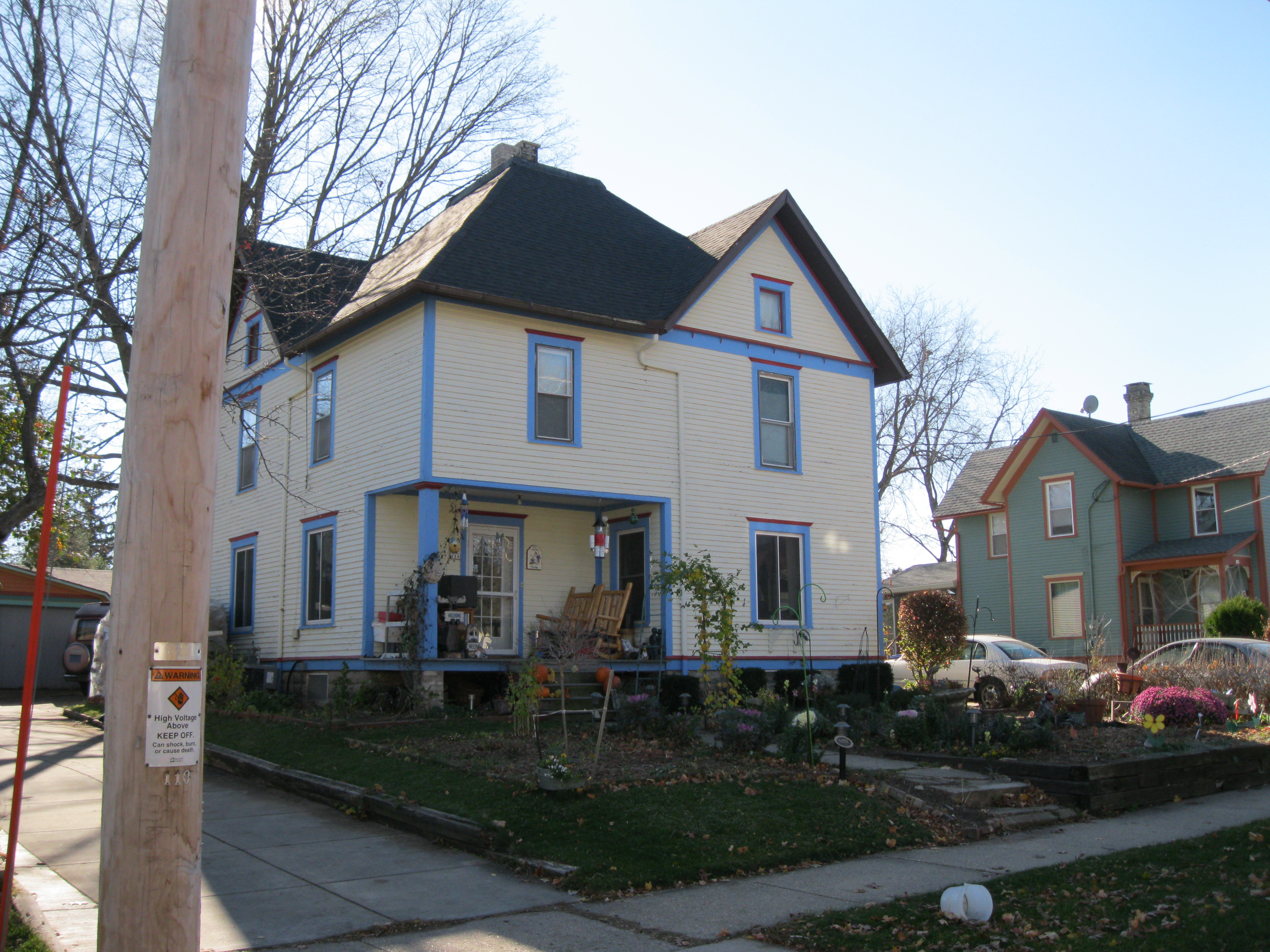 The Gilbert House, located at 116 W. Lincoln Street in the Lincoln Street Historic District in Oregon, Wisconsin.